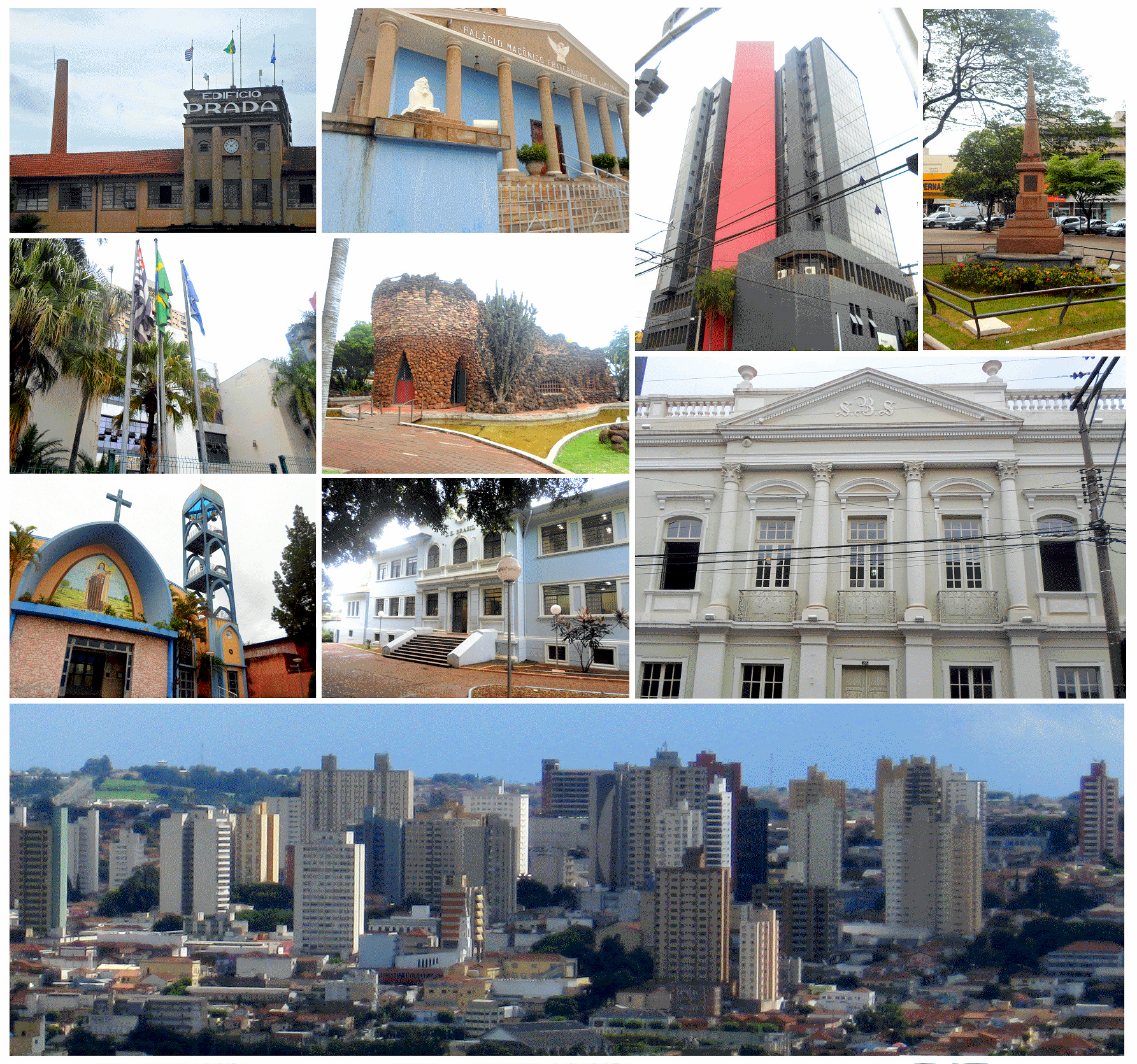 Collage of pictures taken and edited by the author of the file (Nonotosko — holder of the copyrights) on Limeira/SP, with the exception of the bottom photo, which is published under the Creative Commons Attribution-Share Alike 3.0 Unported license under its author's copyrights (by FSogumo), as it can be seen on: . This considered, the file will be then published under that same license.